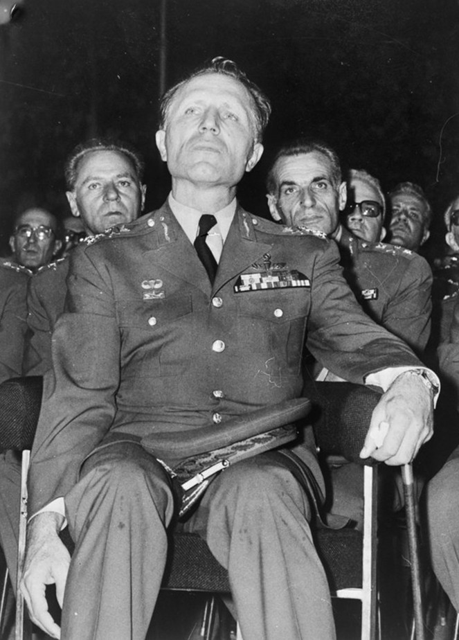 Lt. General Agamemnon Gratsios at Thessaloniki, 4 September 1974